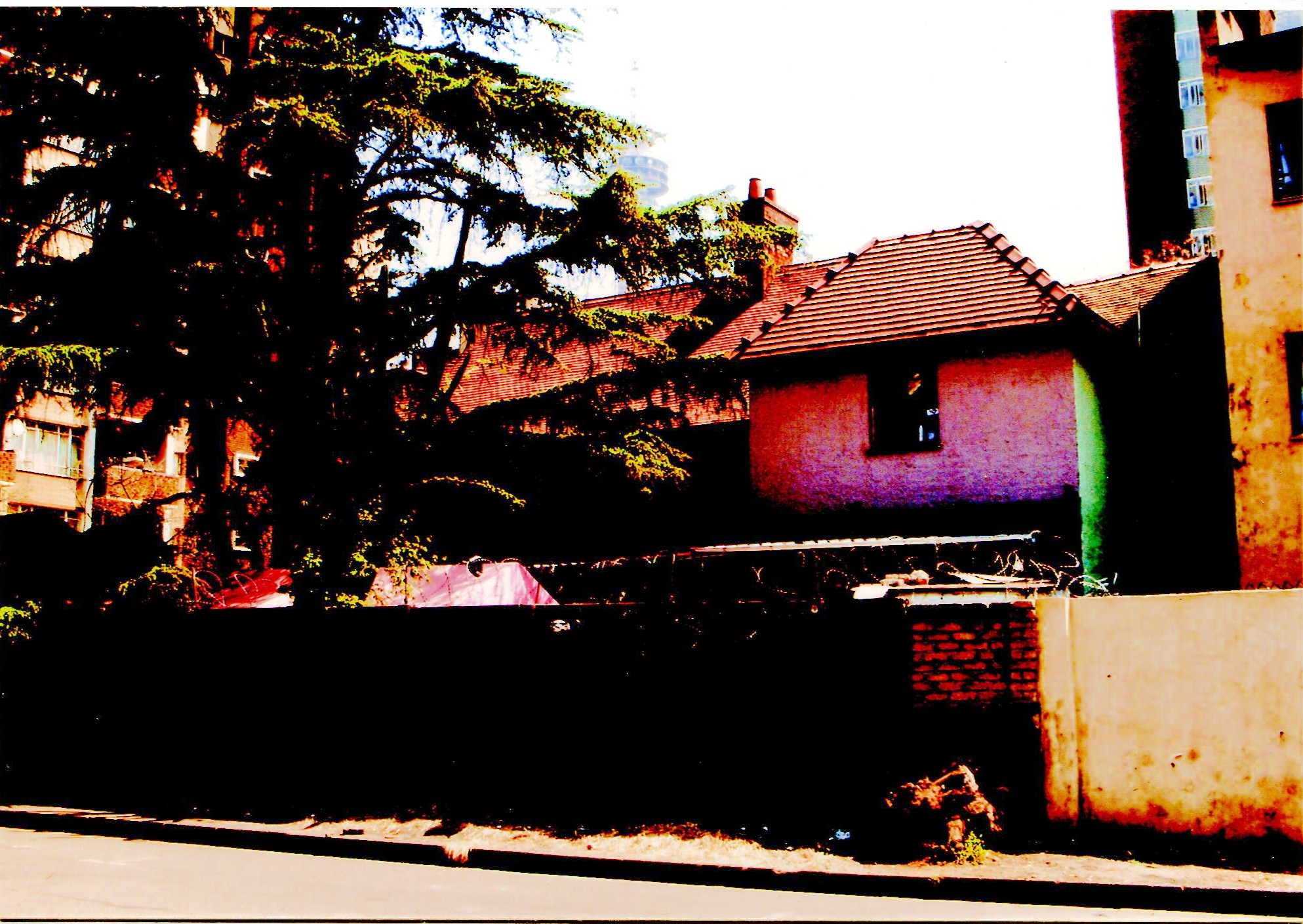 House Brunton is a house in Berea, South Africa constructed by the renowned firm of Henry Seton Morris. These are works from the Johannesburg Heritage Foundation donated to be used in the Joburgpedia project where I'm a Wikipedian in Residence.